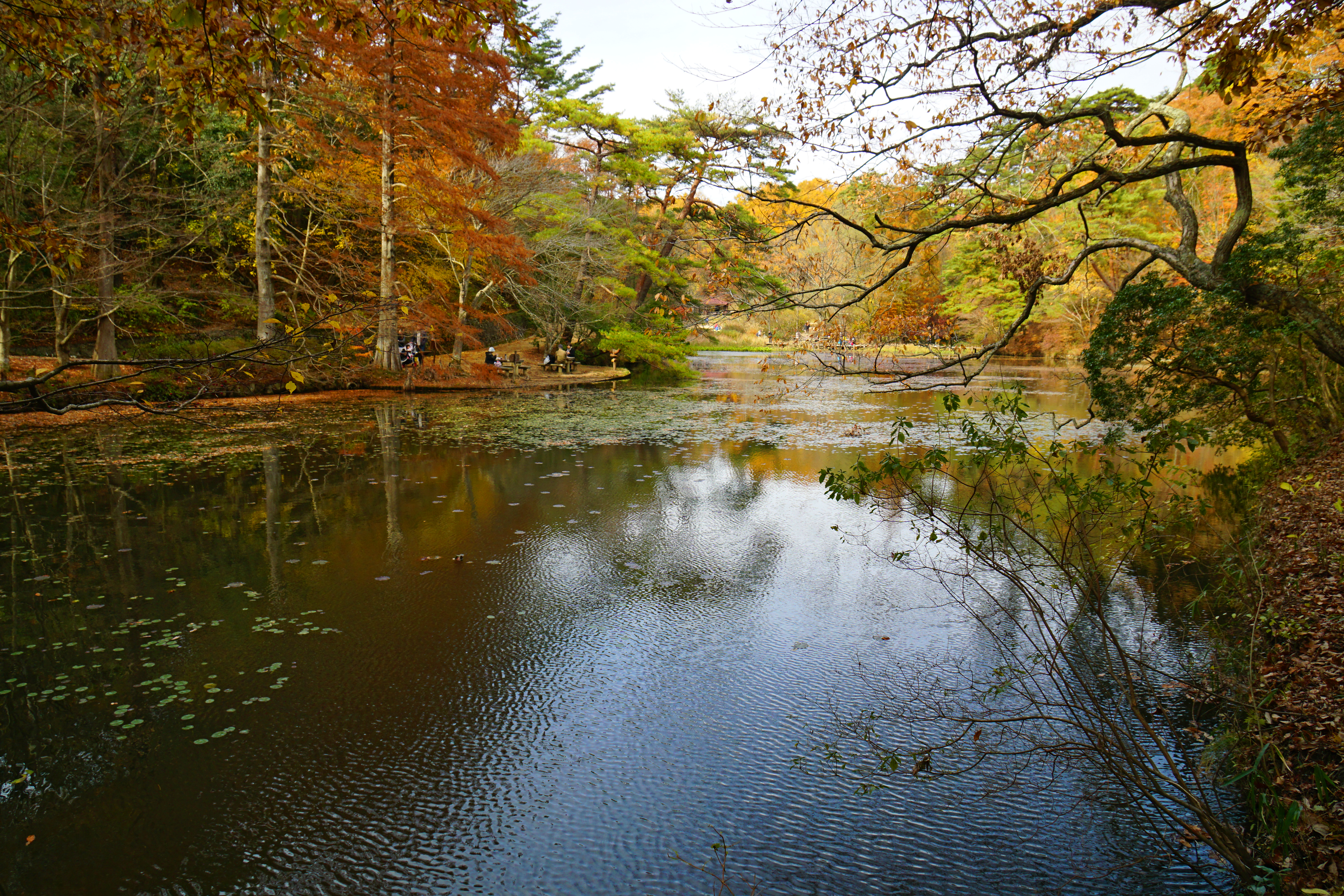 Kobe Municipal Arboretum in Kobe, Hyogo prefecture, Japan